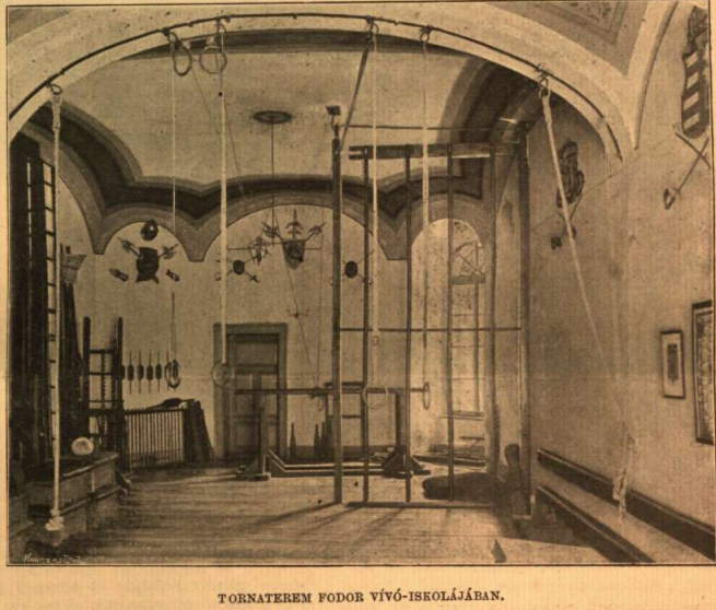 Gym (Fodor Károly)